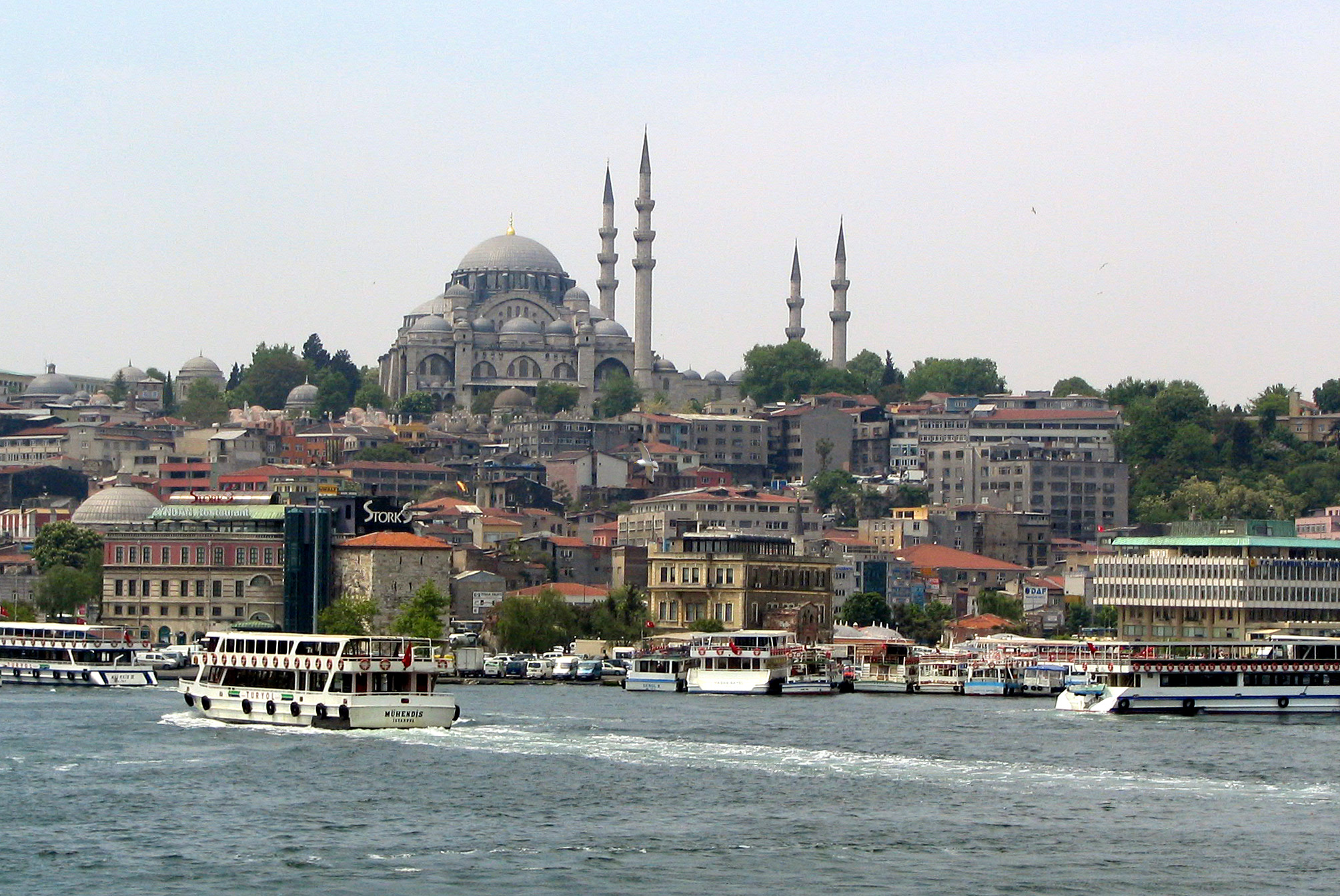 Süleymaniye Mosque in Istanbul, Turkey. May 2006. Photo by Winstonza talk